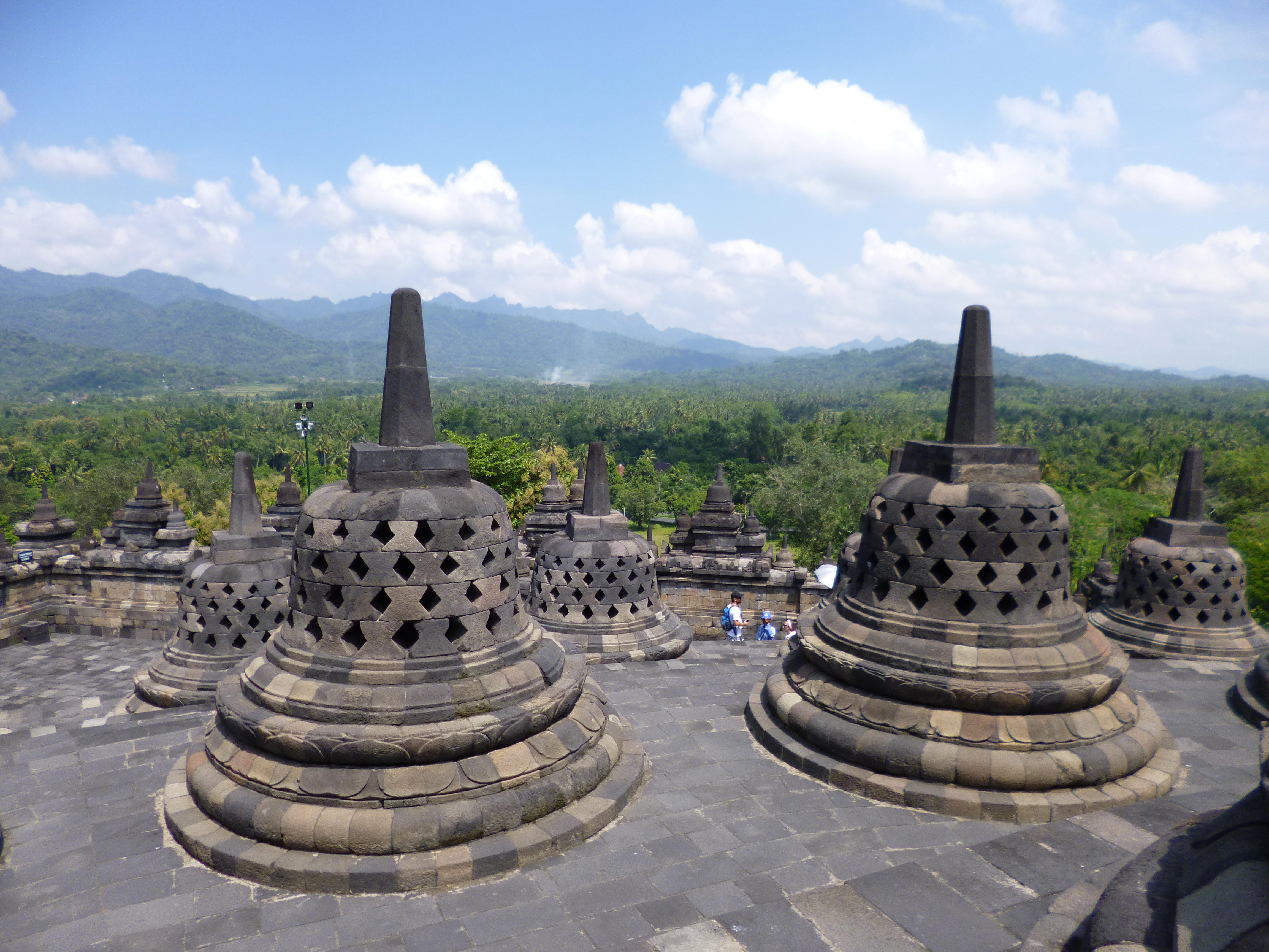 Stupas at Borobudur (Indonesia) - 14th, April 2013